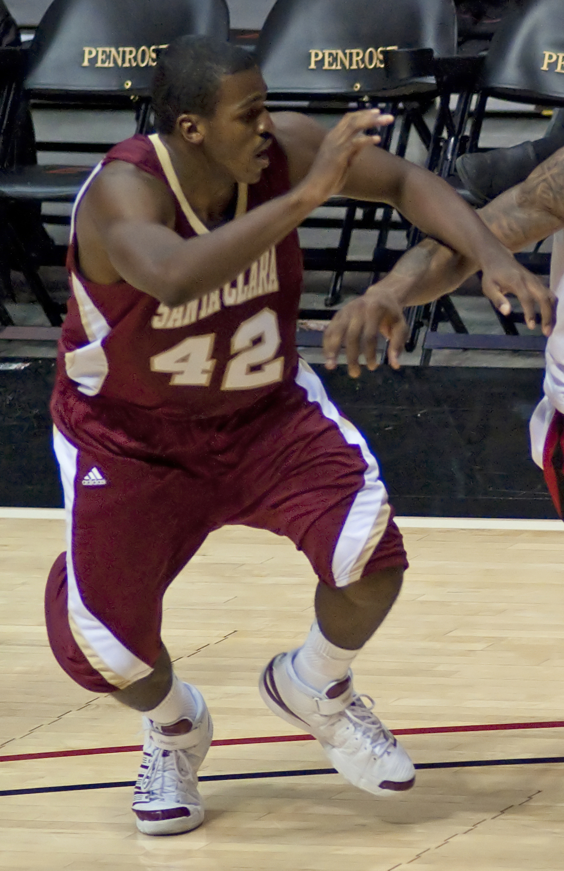 Raymond Cowels of the Santa Clara Broncos